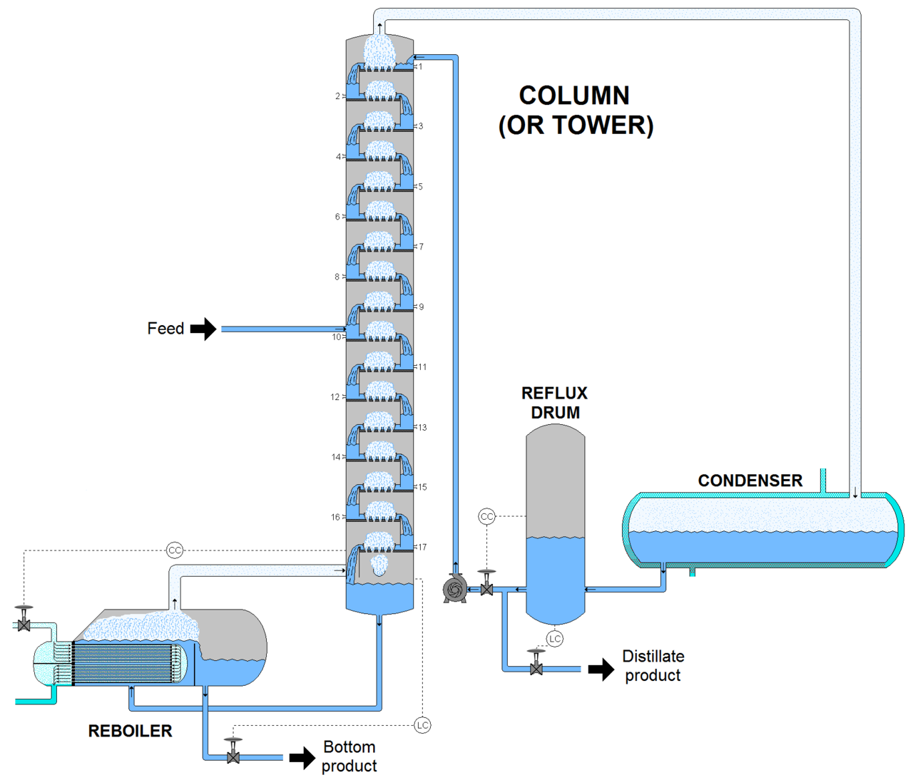 Diagram of a Distillation Column. Designed and Drawn by Marco Guzman at Cal Poly, Pomona, California.